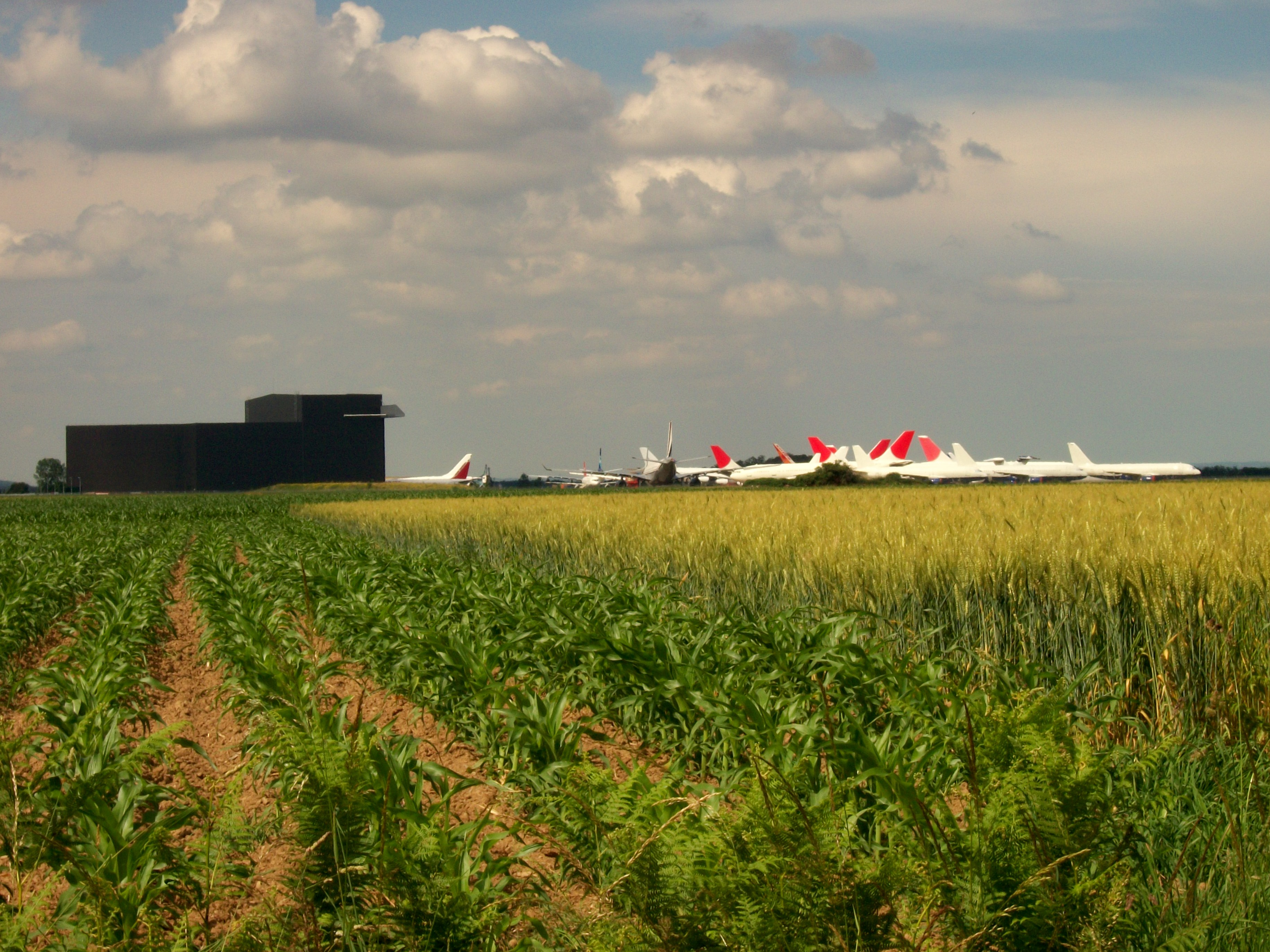 TARMAC and fields, Ossun, Hautes-Pyrénées, France